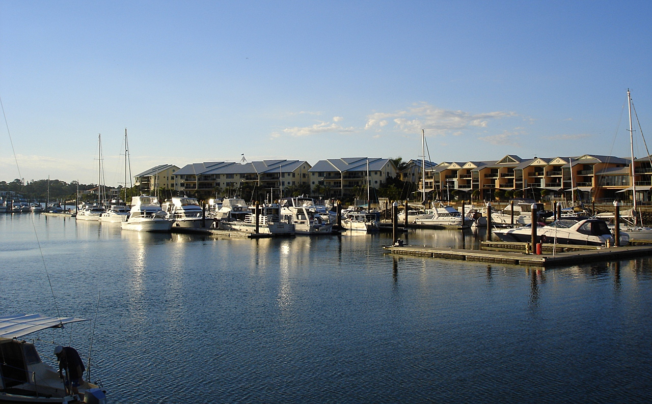 Photograph of Raby Bay Marina in April 2006.